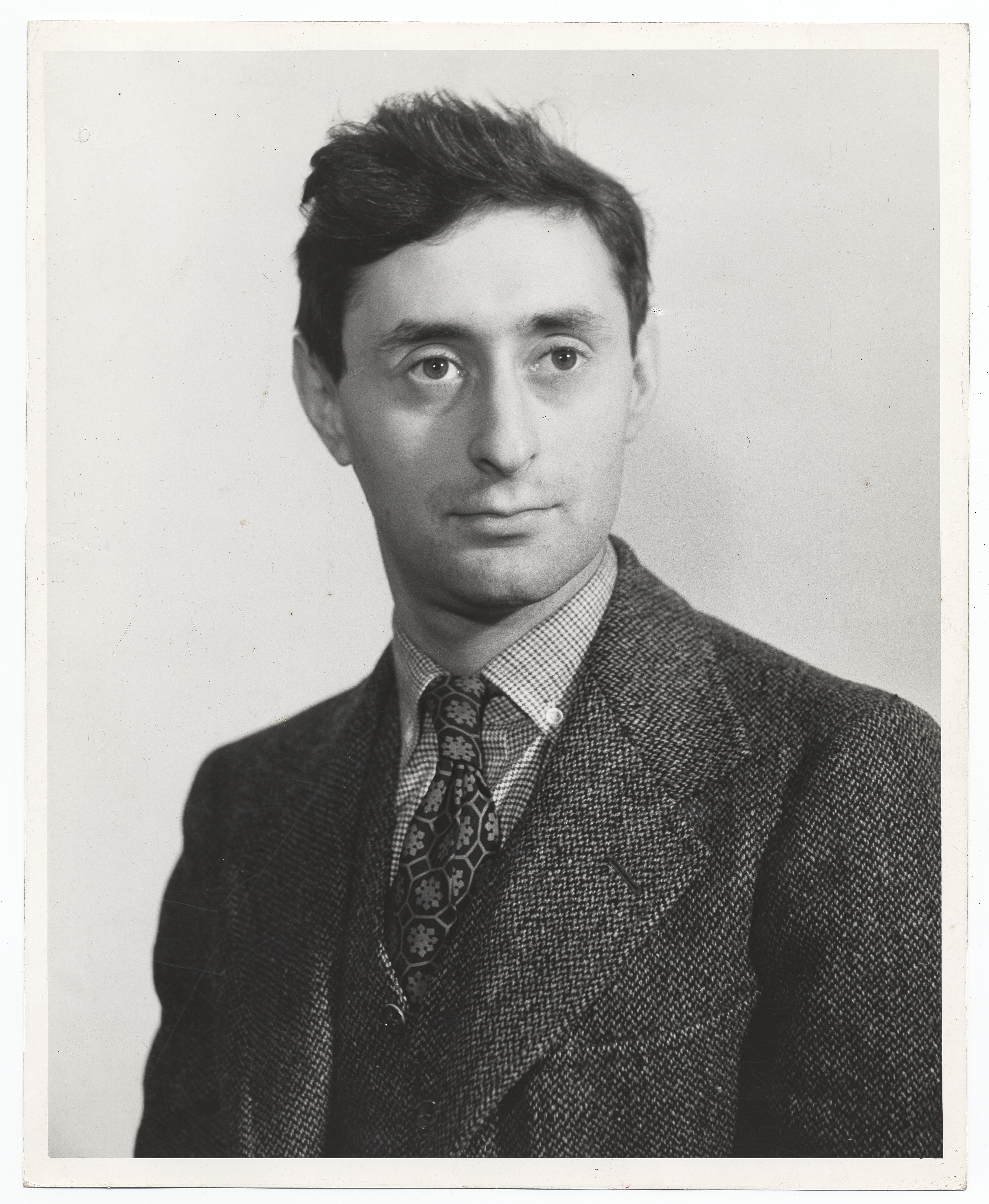 Portrait of Axel Horr. Identification on verso (handwritten and stamped): Federal Art Project W.P.A.; Photographic Division; 13 East 37th St., New York City Location: Mural Department; Date: 4/16/37; Negative No.: P705; photographer: Truehoff; Artist: Axel Horr.